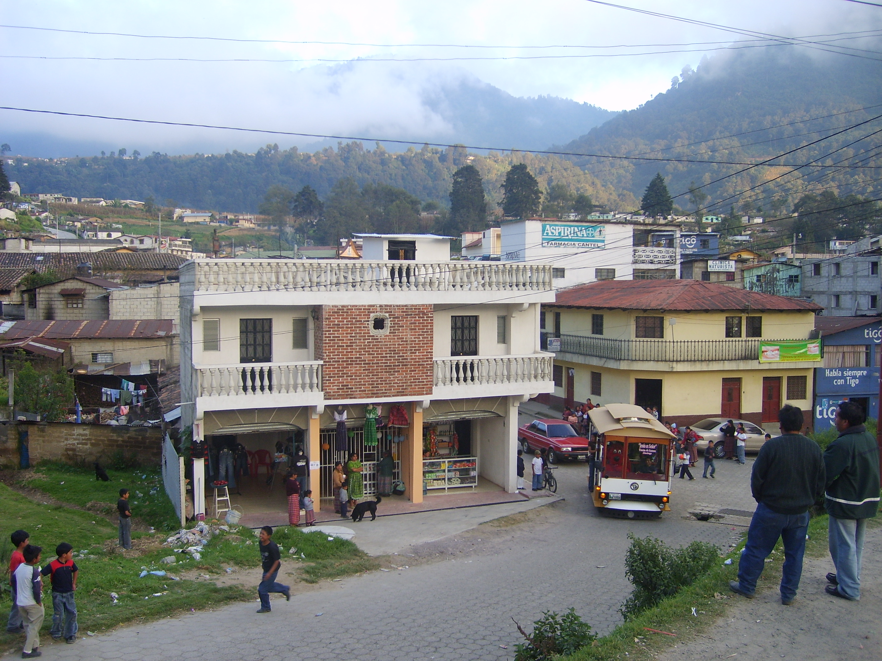 View of Cantel, a village in Quetzaltenango department of Guatemala, from a main road towards Retalhueu. A festival was taking place and an "entertainment tram" for children with mascots on board circulated the city.